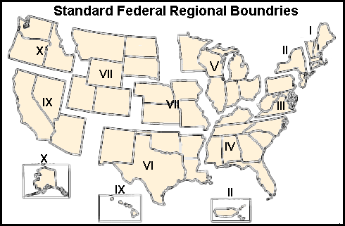 Map of the Standard Federal Regions in United States.